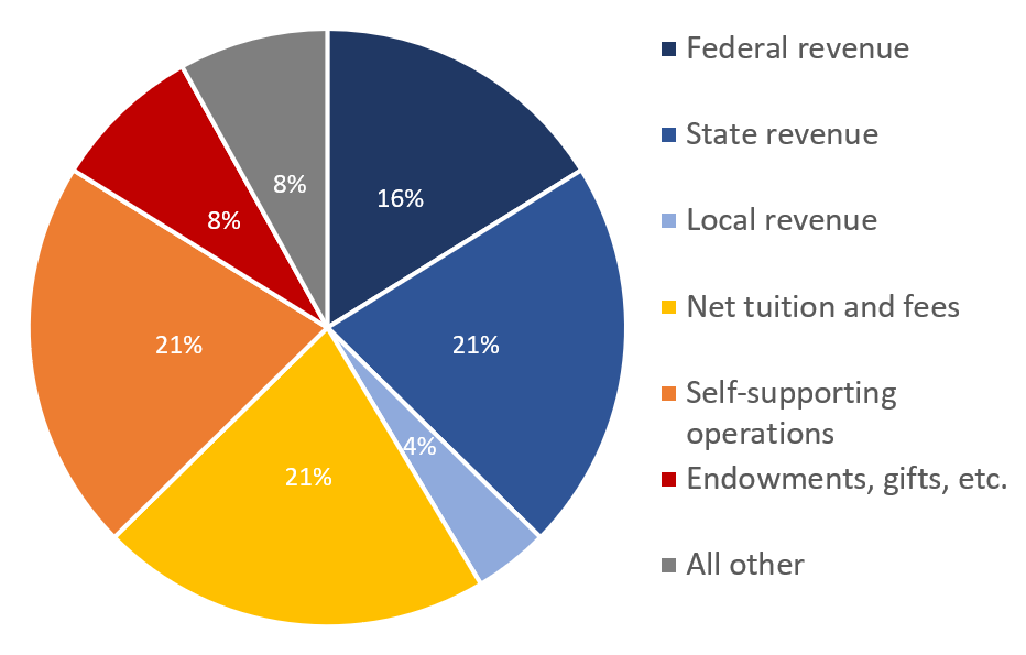 data